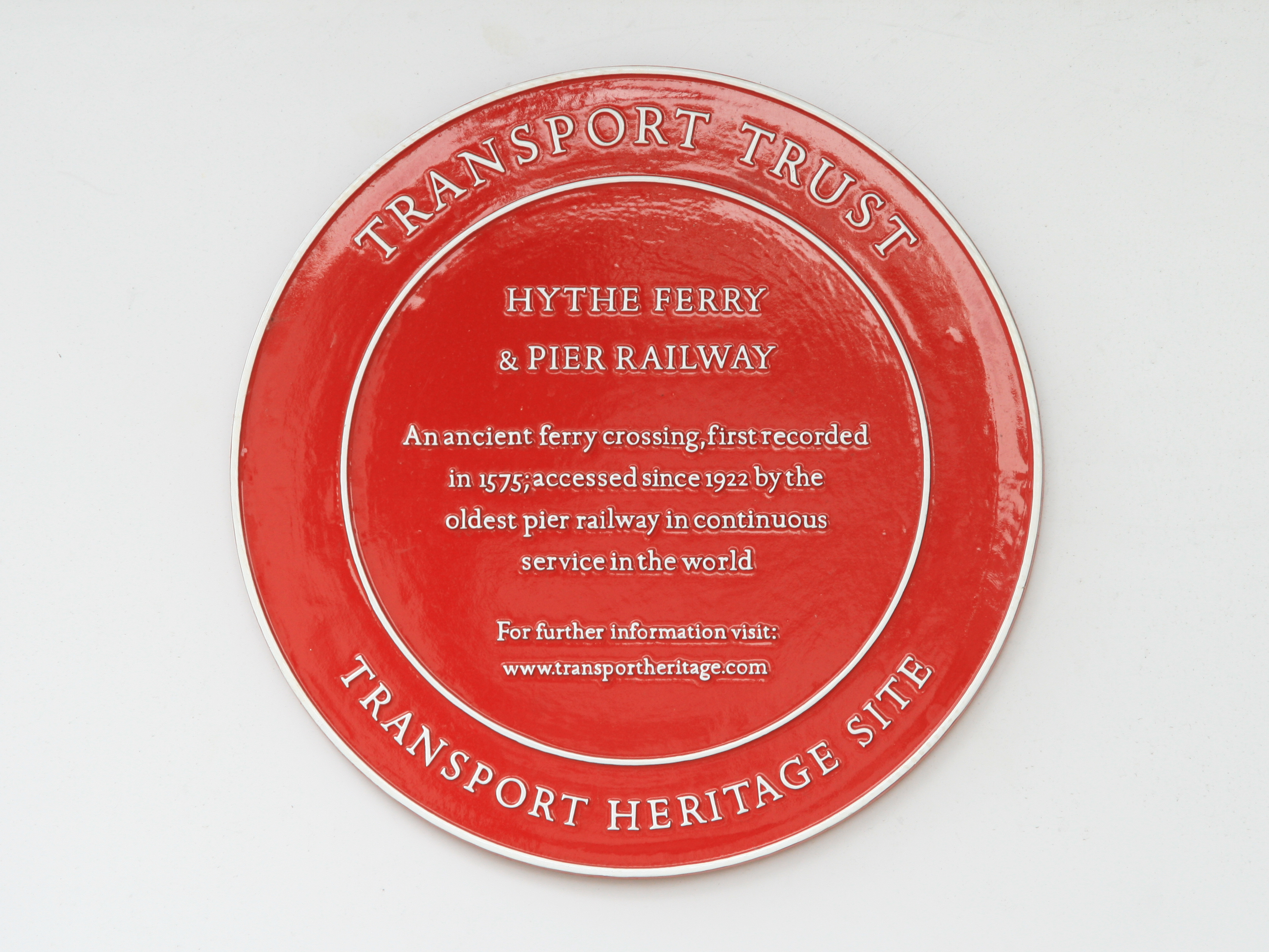 Transport Heritage Site Red Plaque at Hythe Pier, an ancient ferry crossing first recorded in 1575; accessed since 1922 by the oldest pier railway in continuous service in the world. It still today carries commuters from Hythe on the western (New Forest) shore of Southampton Water across the busy shipping lanes to berth in Southampton at Town Quay, at the foot of Southampton's High Street business district. Greener and more environmentally sustainable than the lengthy journey by road. Image uploaded by me User:George.Hutchinson from a photograph taken by and supplied by Brian Burnell. Wikipedia editors are reminded that the copyright remains with the photographer, and that the terms of the Creative Commons licence; that allow editors to reuse this image apply to Wikipedia editors also, as they do to other re-users of this image. Breaches of the licence terms are not only unlawful, but are also antisocial, in that breaches discourage photographers from making their images freely available to everyone without payment. Wikipedia re-users are also reminded of the license terms that derivatives of this image should not imply that the adaptation is endorsed or approved by the author or copyright holder. Neither should derivatives be presented as the creation of the author or copyright holder, while clearly stating that the adaptation is a derivative of the original. Attribution online should be in this format Brian Burnell. On the printed page, a simpler form is acceptable - example: "Image: Brian Burnell". Non-Wikipedia users are requested to advise Brian Burnell of its use other than on Wikipedia.